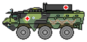 Panssari-Sisu, XA-185 Lääkintä-Pasi (ambulance)